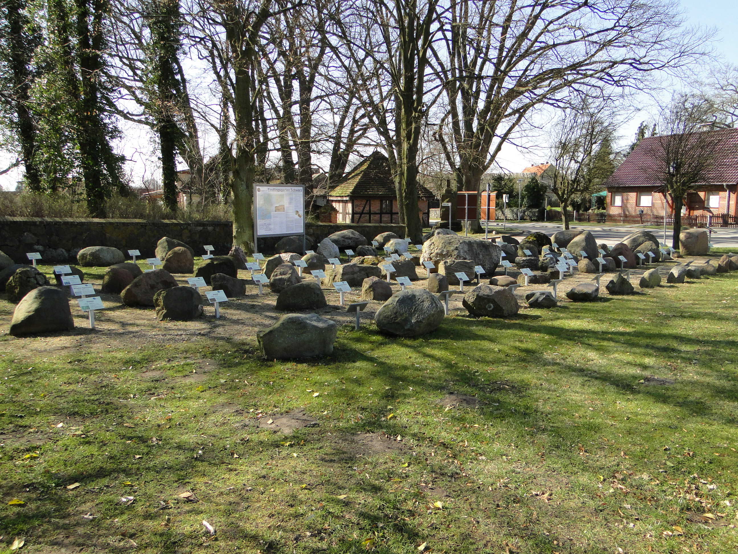 Glacial erratic garden in Schwarz, disctrict Müritz, Mecklenburg-Vorpommern, Germany